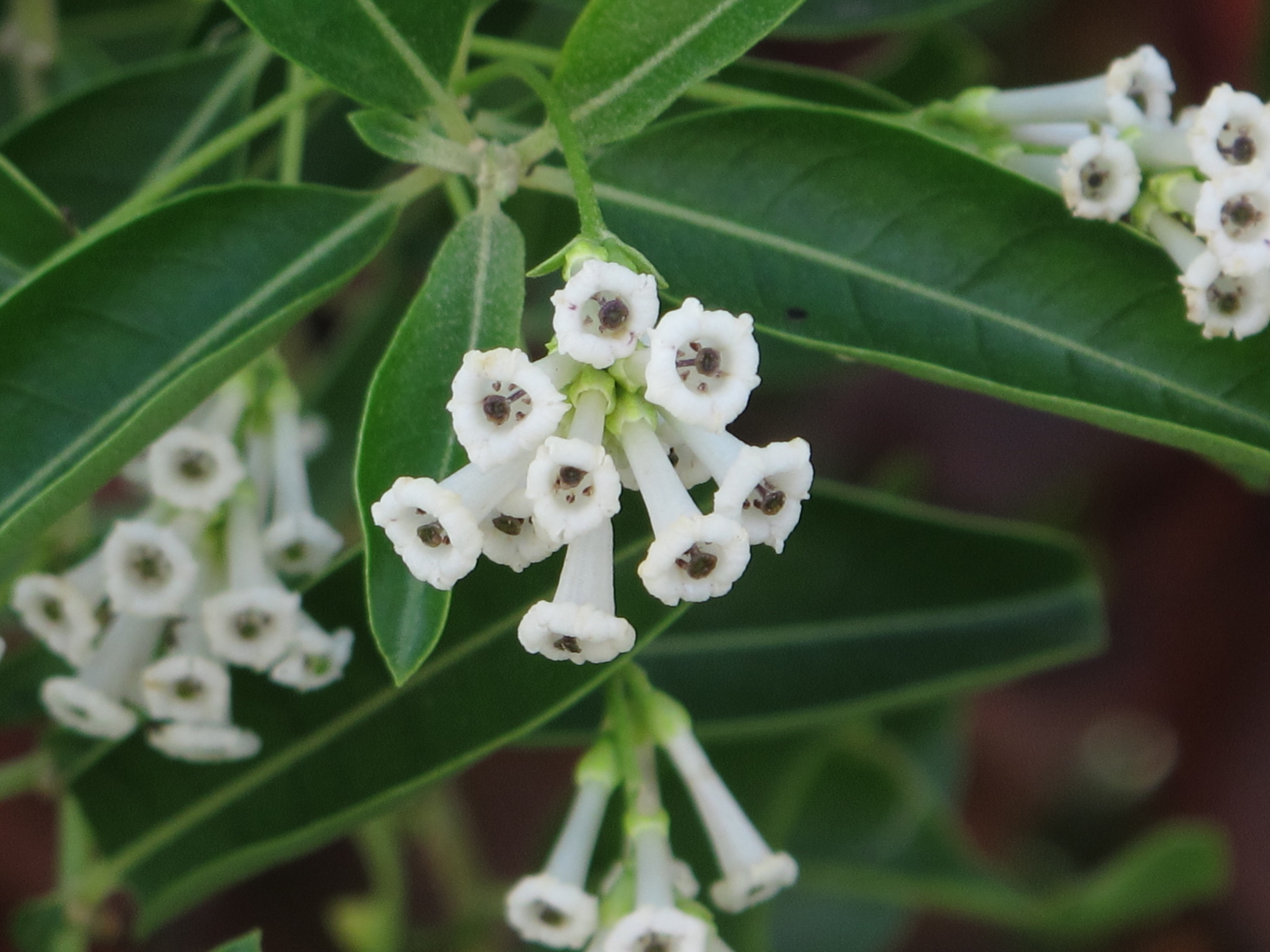 private garden, South Miami, Florida, USA. This plant is an invasive species in south Florida, but it is beautiful and fragrant.